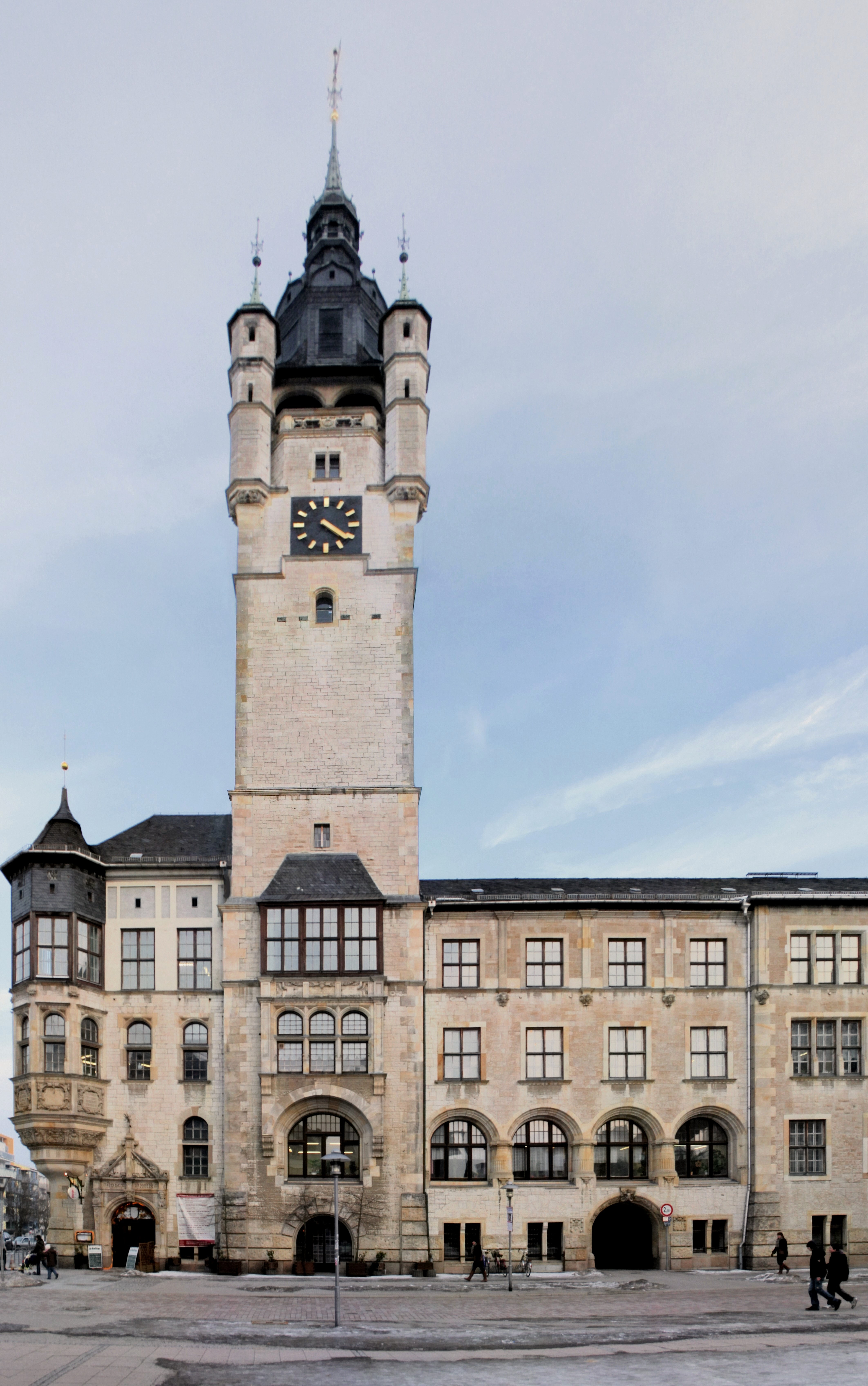 Side view of the Rathaus Dessau (stitched together with Autopano)